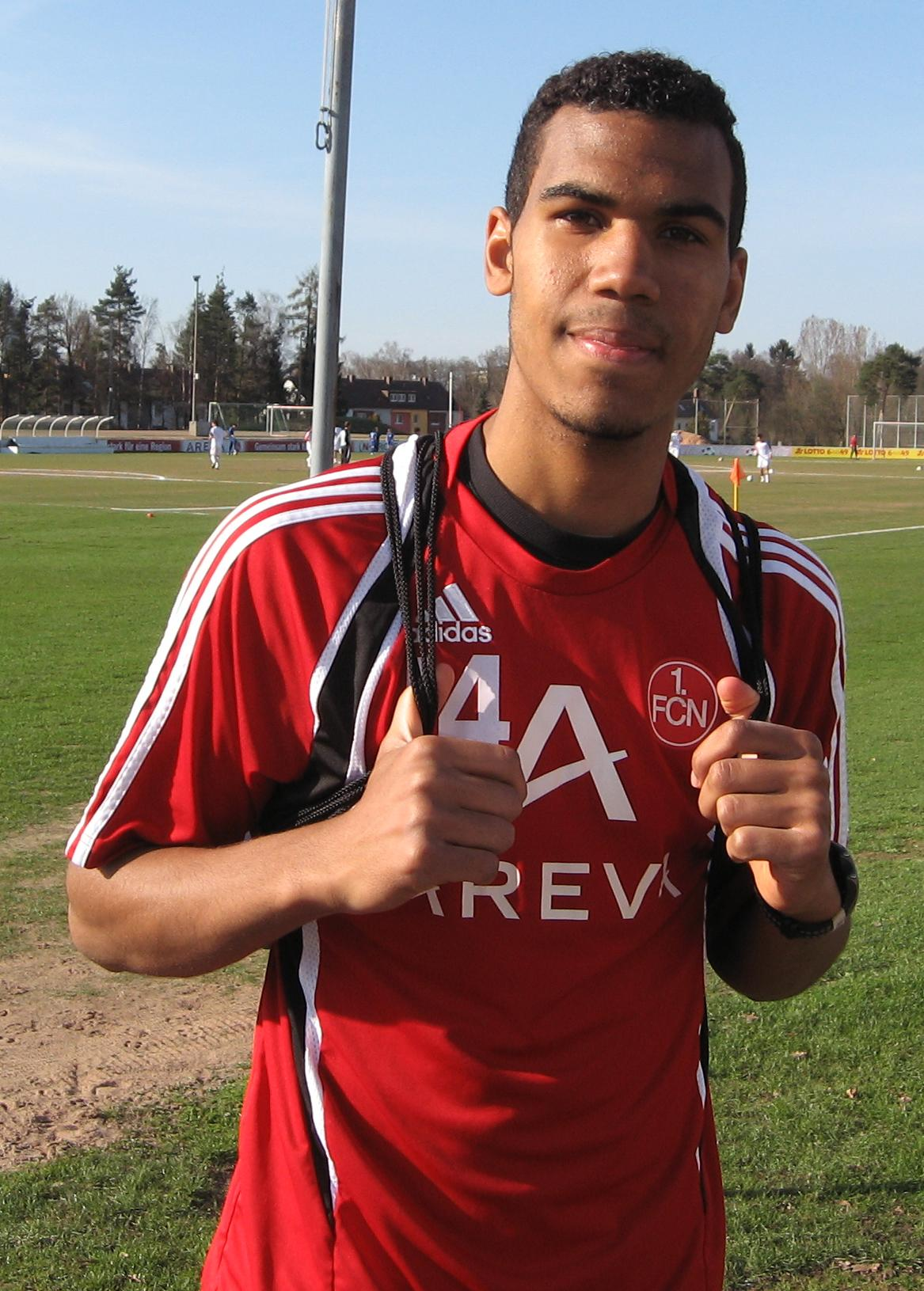 Maxim Choupo-Moting, player of 1. FC Nürnberg.